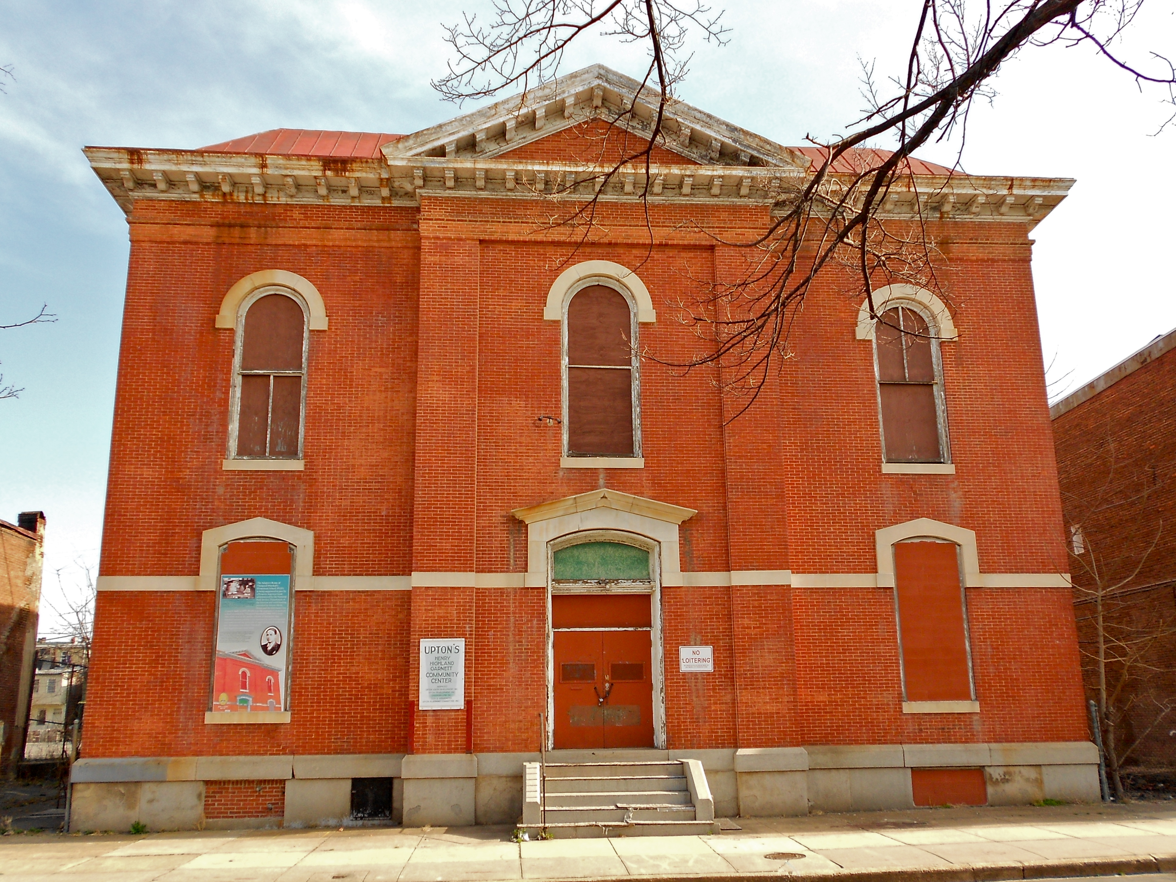 Public School 103 in Baltimore. US Supreme Court Justice Thurgood Marshall attended this school 1914-1920. Located in the Old West Baltimore Historic District, on the NRHP since December 23, 2004. The district is roughly bounded by North Ave., Dolphin St., Franklin St. and Fulton Ave. in west Baltimore. The school is located about 1315 Division Street.